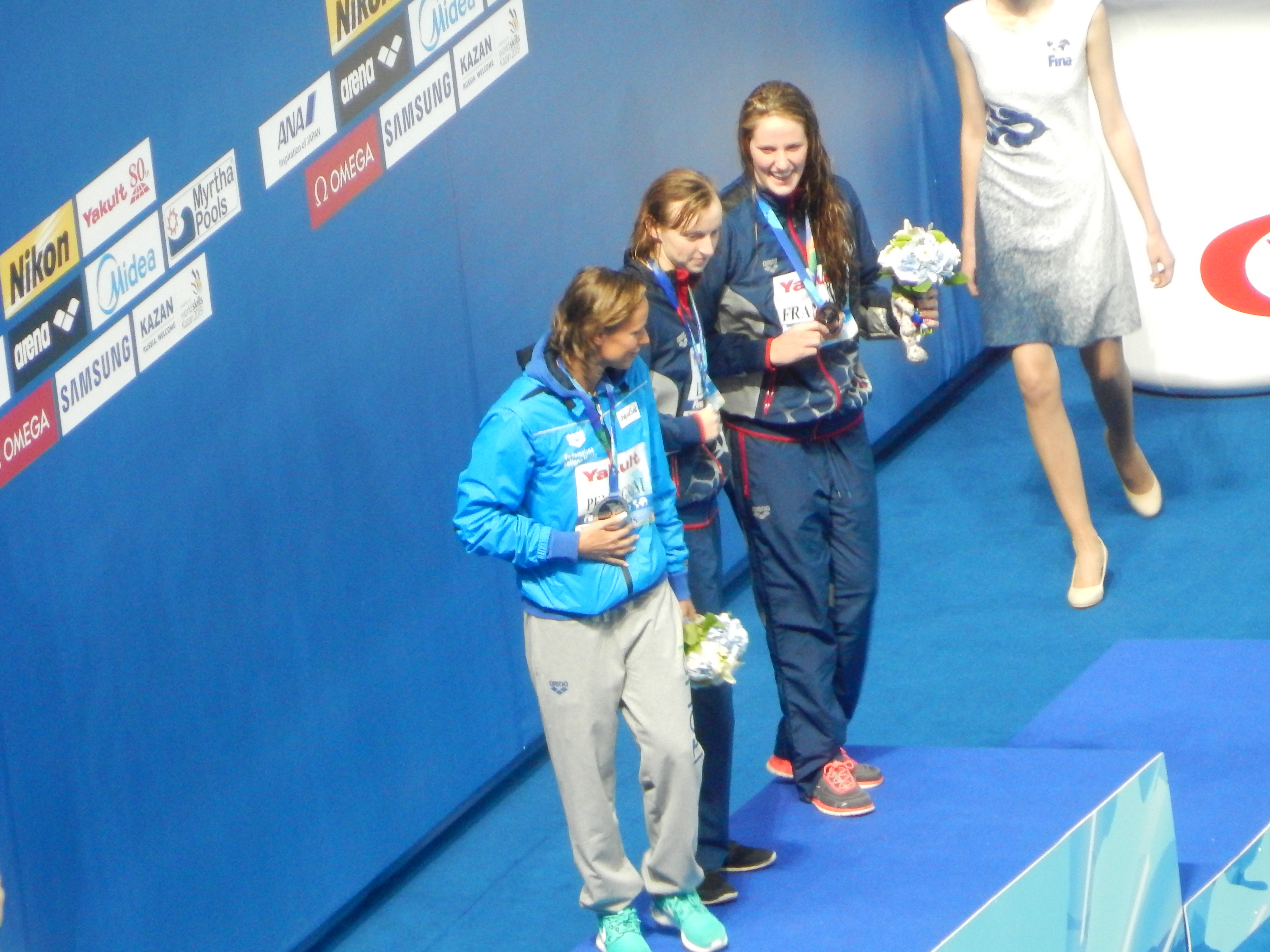 Medallists at the women's 200 metres freestyle in Kazan 2015